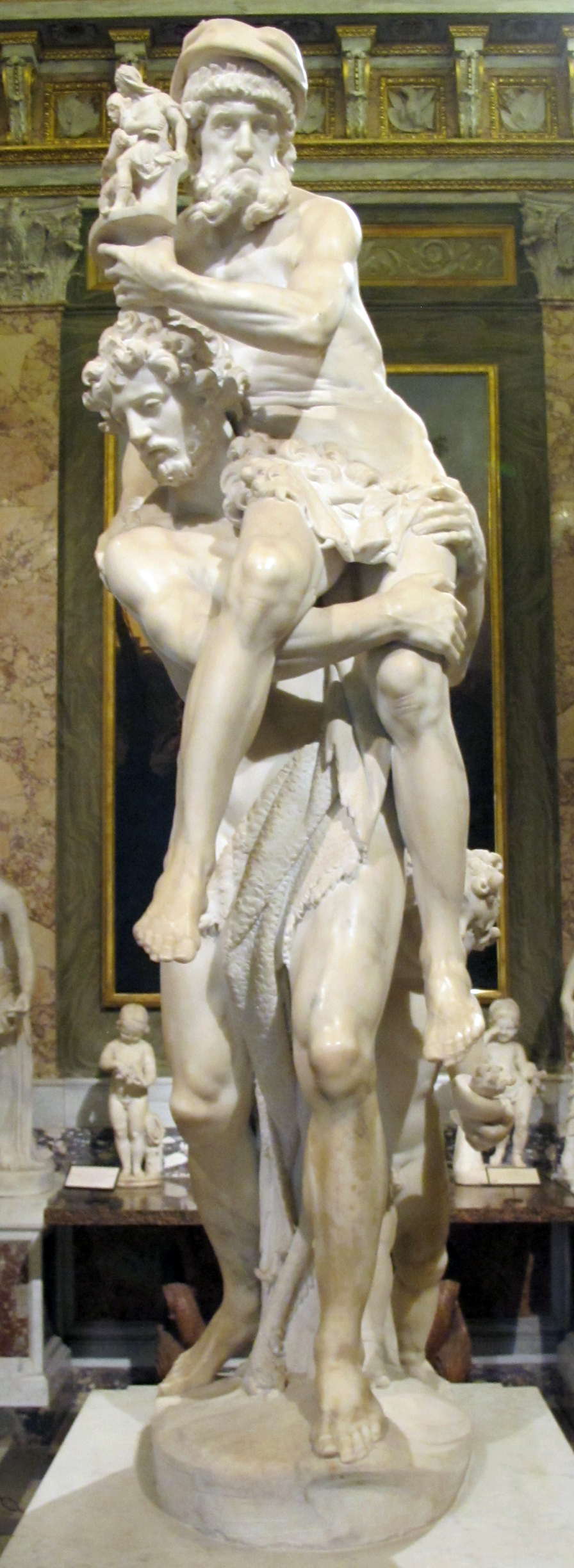 Sculptures in the Galleria Borghese (Rome)